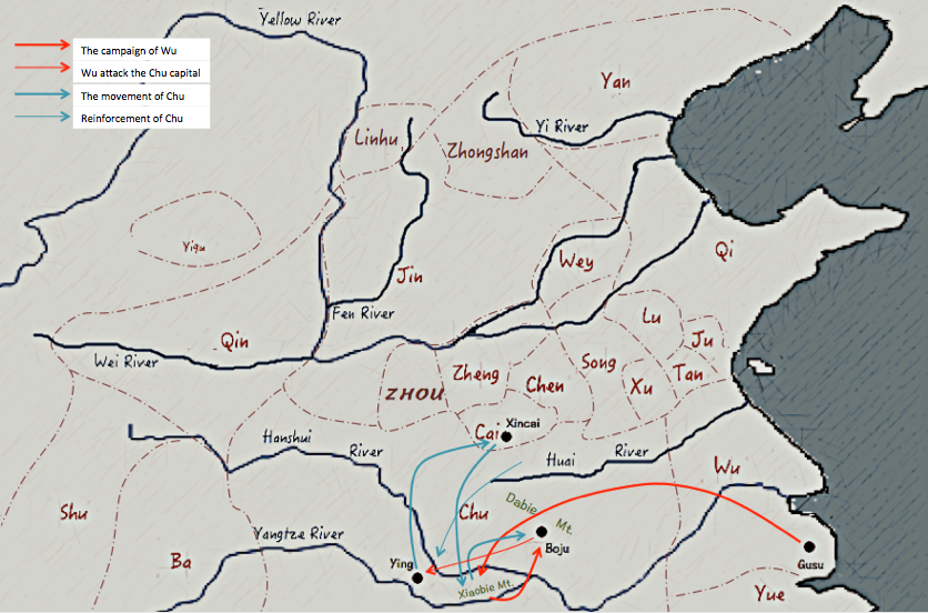 Map showing the Battle of Boju between Chu and Wu states 中文（中国大陆）: 柏举之战示意地图